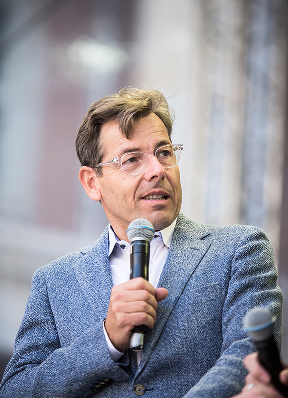 Hartmut Dorgerloh, Director of the Humboldt Forum, during the Open Days of the Construction Site 2018